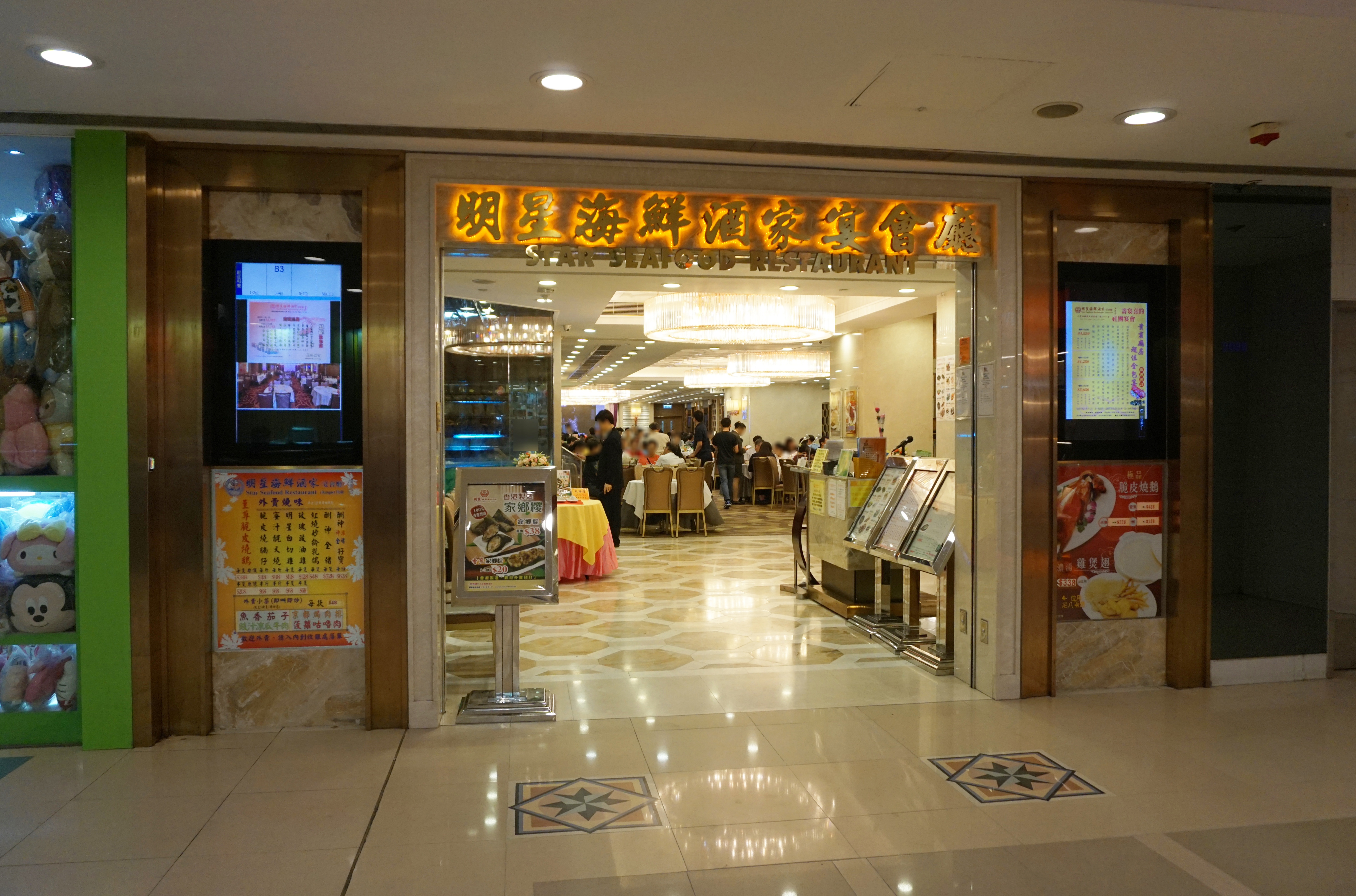 Star Seafood Restaurant in Yau Tong, Hong Kong.